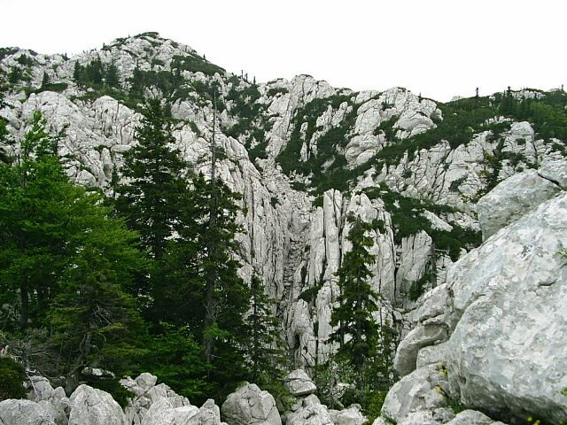 Velebit Mountains, Croatia